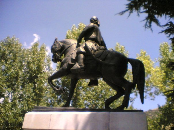 Youssef Bey Karam statue in Saint George church in Ehden.